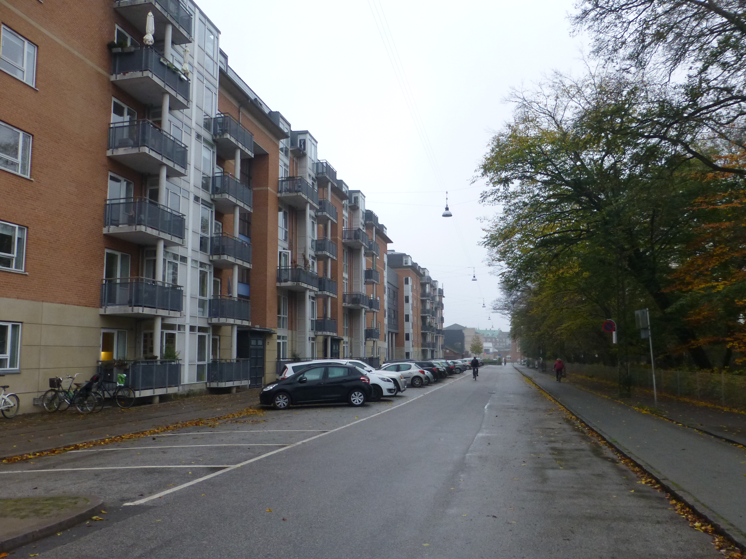 The street Serridslevvej in Østerbro in Copenhagen.